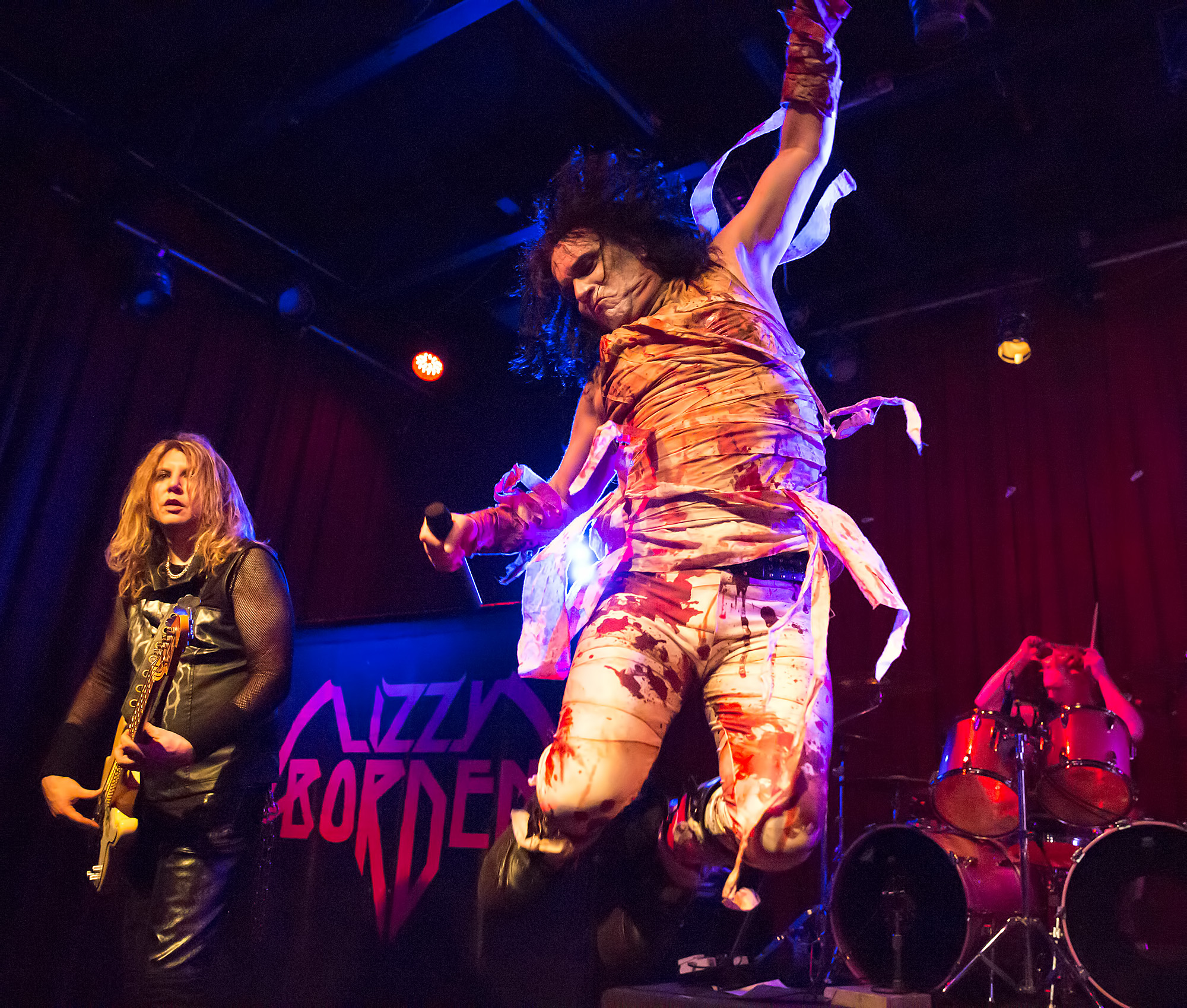 Lizzy Borden performing in San Antonio, Texas, 2014-08-16.